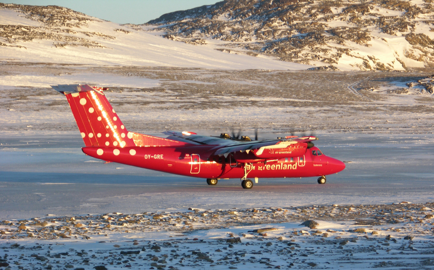 AirGreenland Dash7